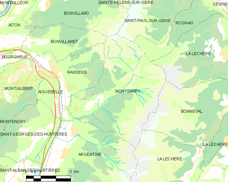 Map of French municipality